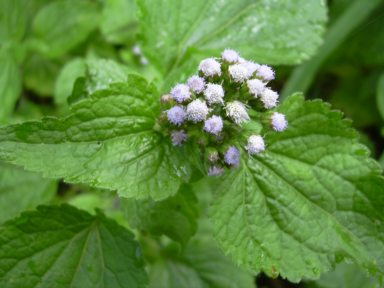 Ageratum conyzoides (flowers). Location: Maui, Hana Hwy